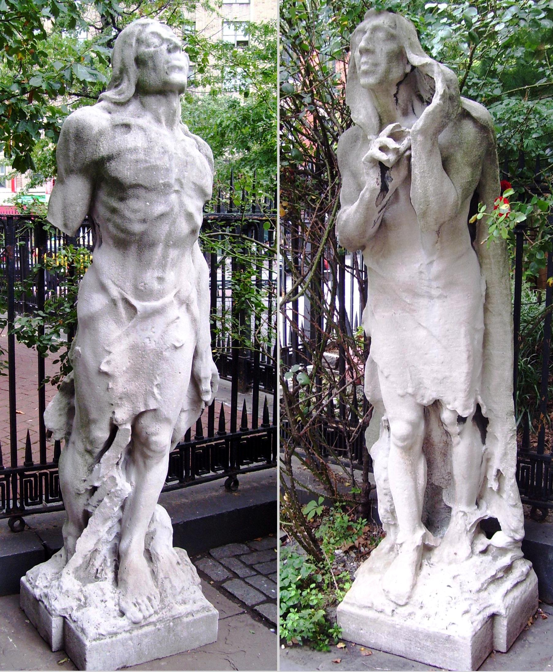 "Inspiration" and "Aspiration", sculptures of Native American men by Solon Borglum, in the front yard of St. Mark's Church in-the-Bowery in the East Village, Manhattan, New York City. (c.1920s)